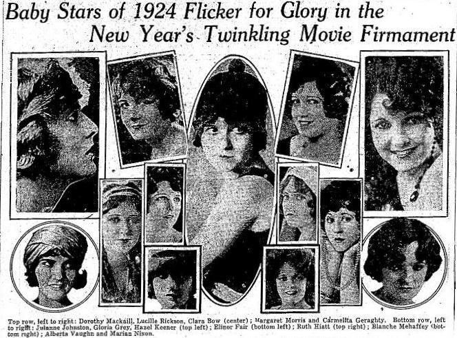 Publicity photo of 1924 "baby WAMPAS star" winners